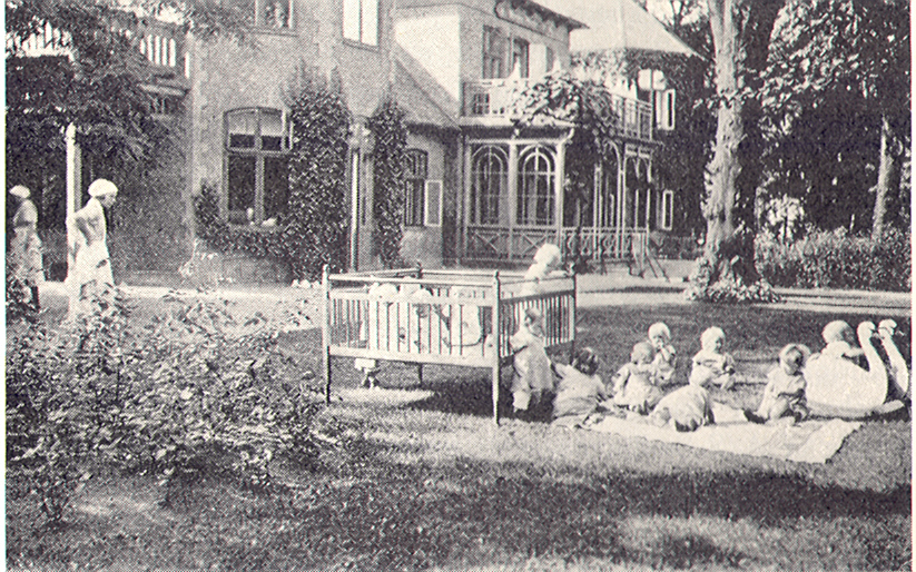 Norgesminde, former country house north of Copenhagen